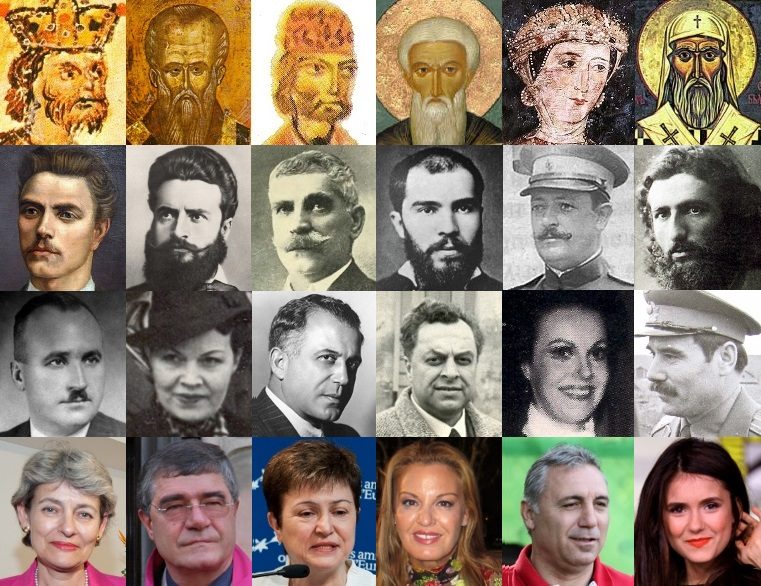 Photos of 24 famous Bulgarians